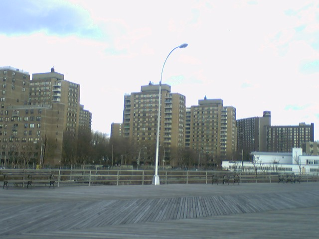 Mayor William O’Dwyer Gardens, in the westernmost portion of Coney Island at West 35th Street; these high-rise low-income housing are seen from the Riegelmann Boardwalk.